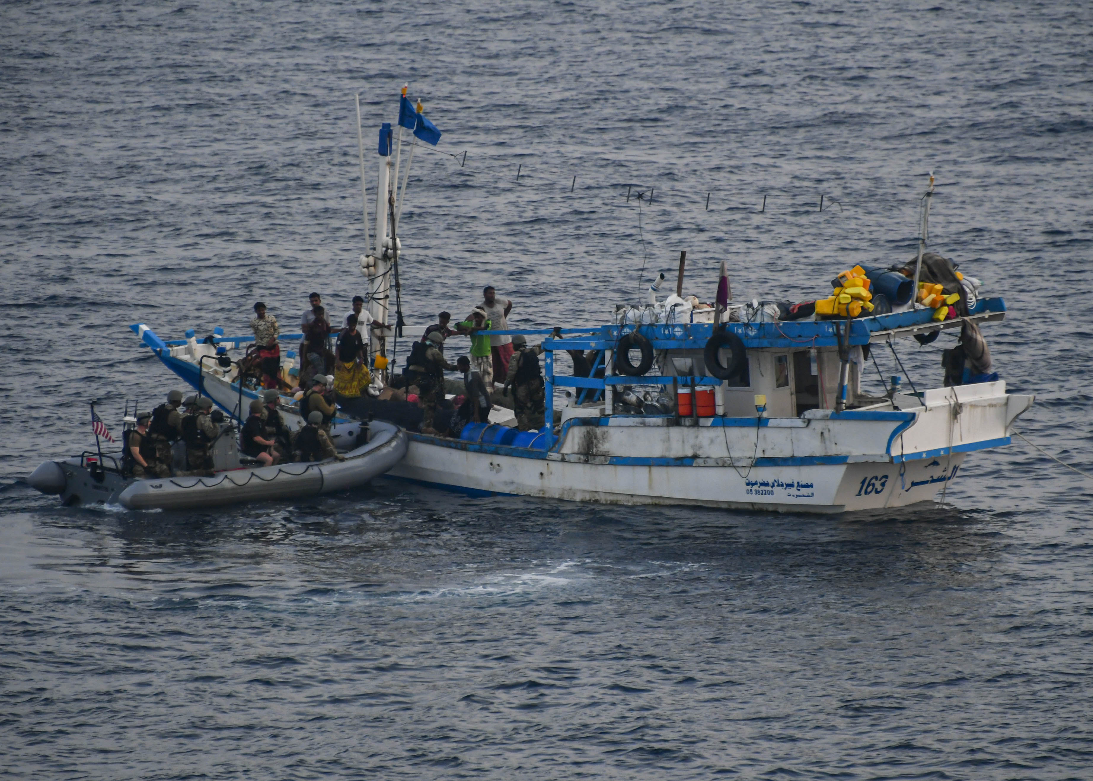 GULF OF ADEN (Oct. 19, 2019) Members of the visit, board, search, and seizure team assigned to the guided-missile cruiser USS Normandy (CG 60) conduct maritime security operations. Normandy is part of the East Coast Surface Action Group and is operating in the U.S. 5th Fleet area of operations in support of naval operations to ensure maritime stability and security in the Central Region, connecting the Mediterranean and Pacific through the Western Indian Ocean and three strategic choke points. (U.S. Navy photo by Mass Communication Specialist 2nd Class Michael H. Lehman/Released)191019-N-PC620-0060